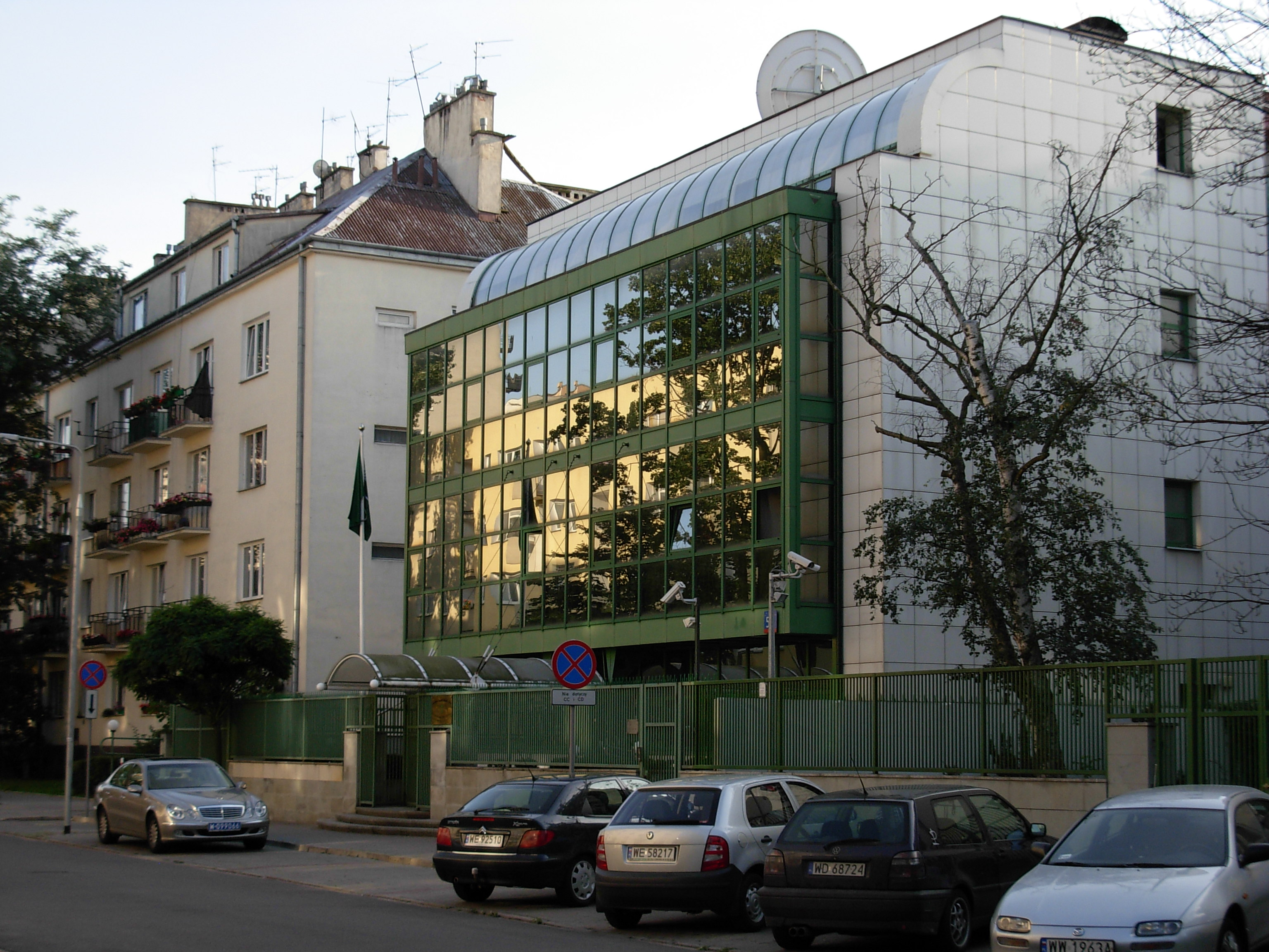 Former Saudi Arabian Embassy in Warsaw